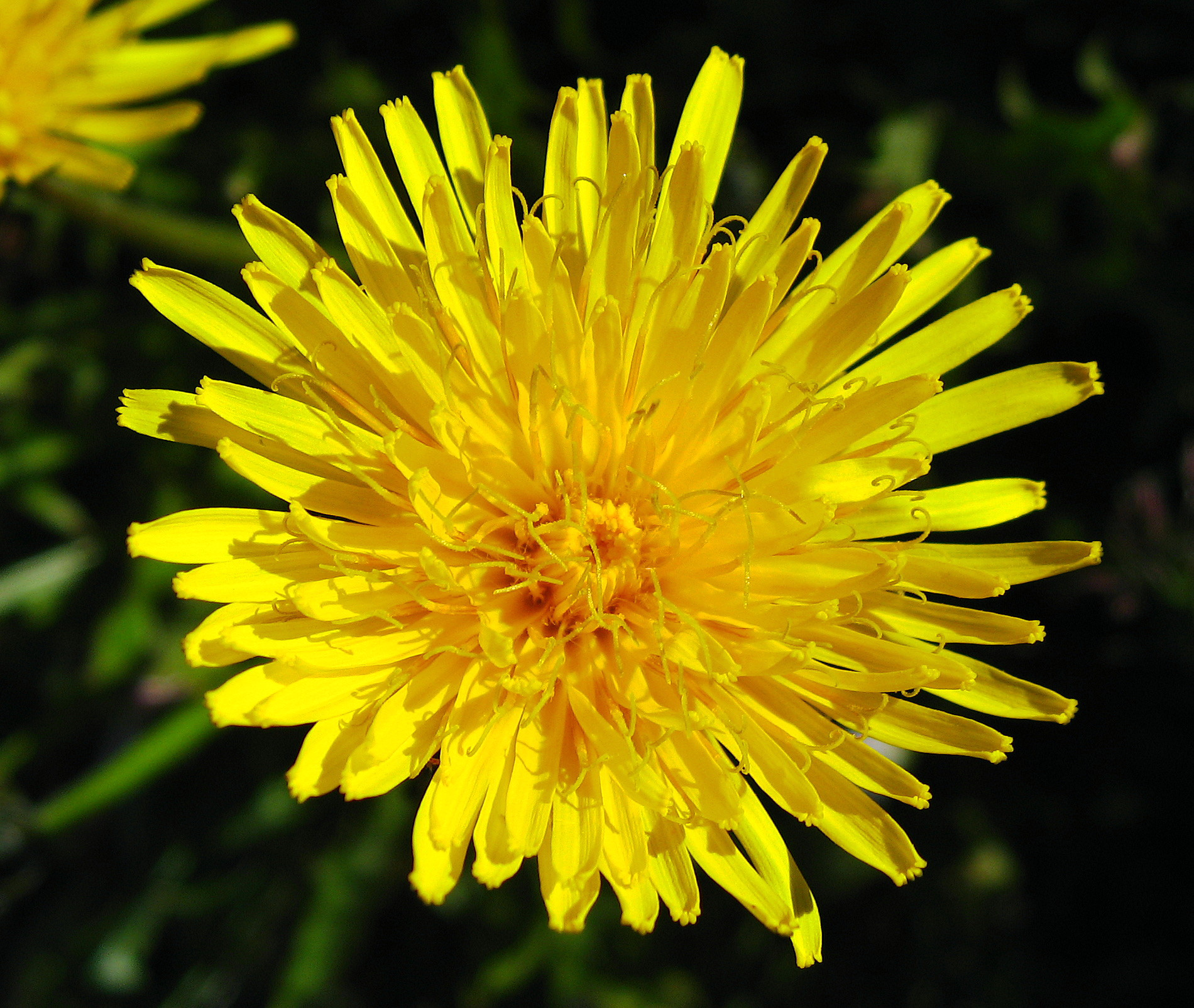 Dandelion (Taraxacum sp.) photographed near house in Upernavik, Greenland. There are about 25 different species of dandelion in Greenland. However I do not have the skils and knowledge to determine which one it is. The photo is an edited version of the original. It has been cropped, an unsharp mask of 0.5 pixel radius and amount 94% has been applied and the red tone curve has been adjusted a little in the high end to compensate for slight saturation of that channel.